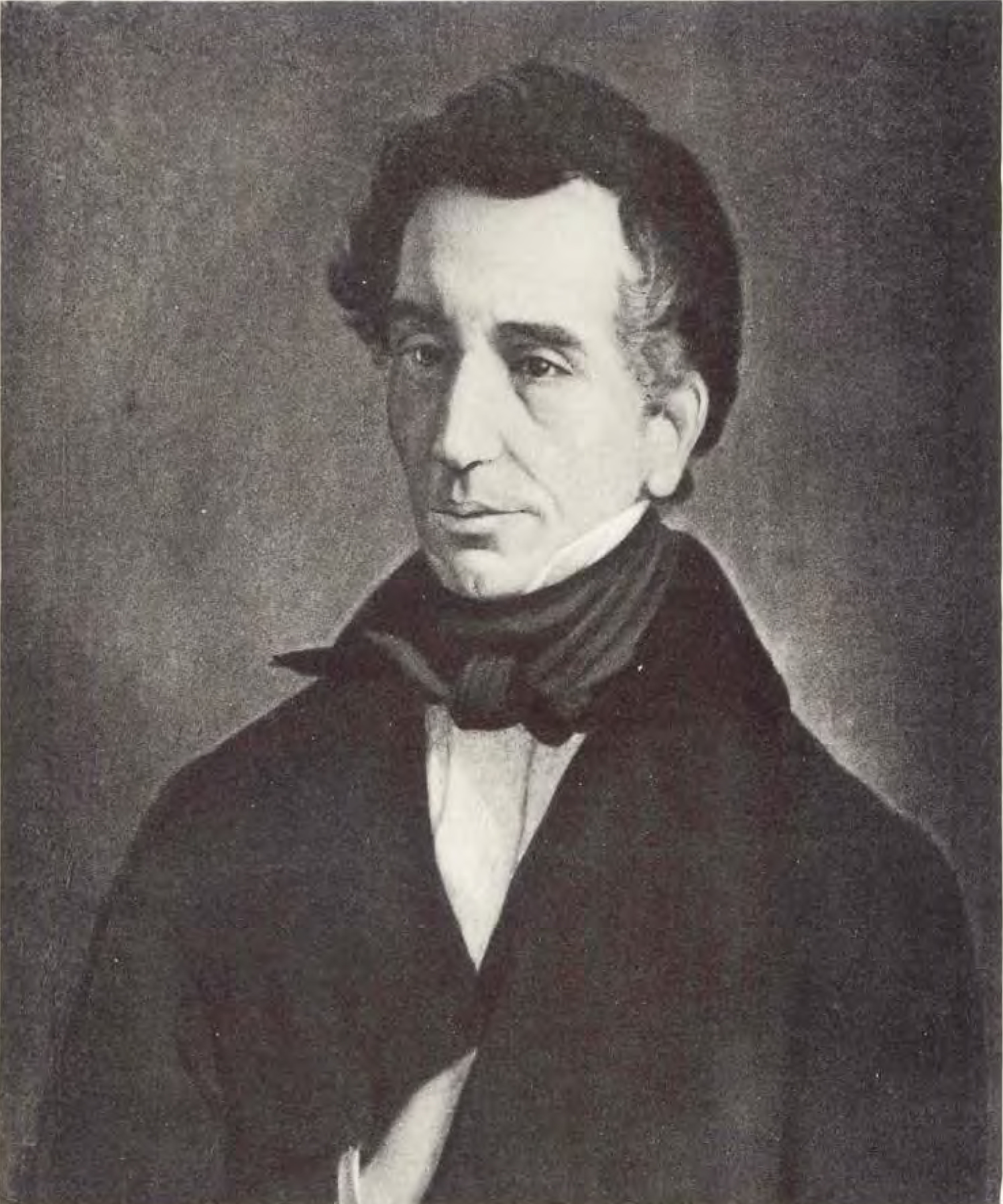 Russian diplomat and writer Alexander Skarlatovich Sturdza.